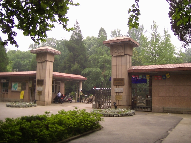 Image come from japanese Wikipedia page: The Zhiwuyuan Park, and Botanical Garden entrance in Beijing 中山植物園 入口 2004年6月18日撮影 撮影者：権作 参照：